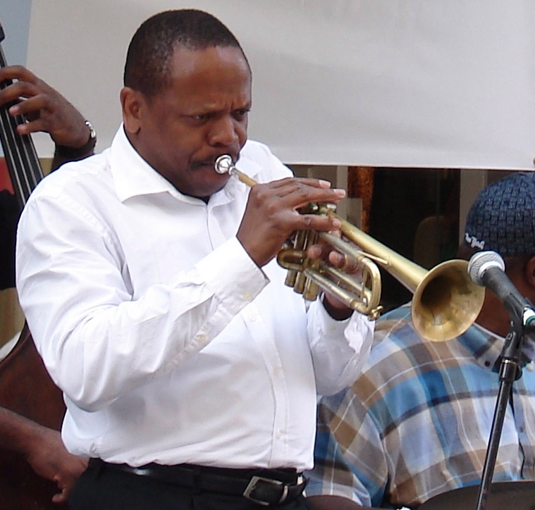 Trumpeter/bandleader Leroy Jones playing at French Quarter Festival, New Orleans